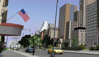 Twinity New York City location